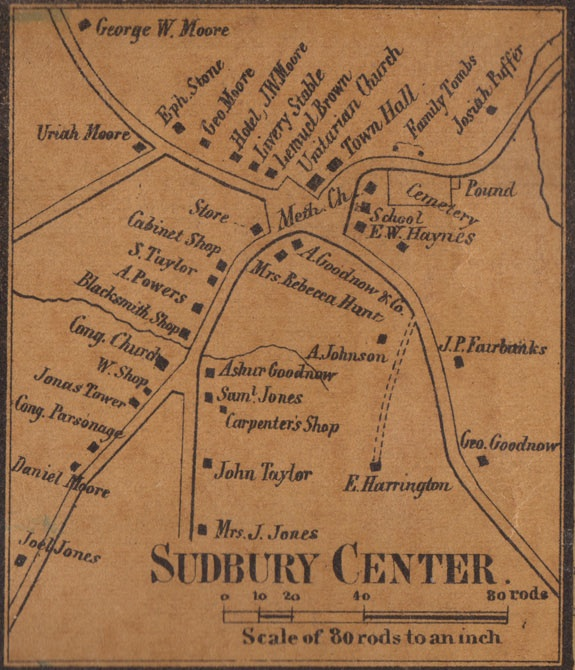 Sudbury Center in 1856 from an inset on The Map of Middlesex County, H.F. Walling, 1856